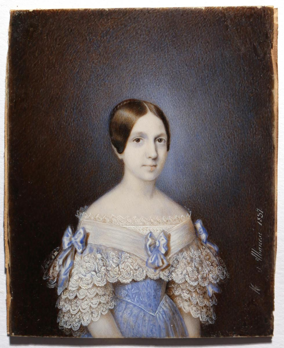 Teresa Cristina of the Two Sicilies, Empress of Brazil